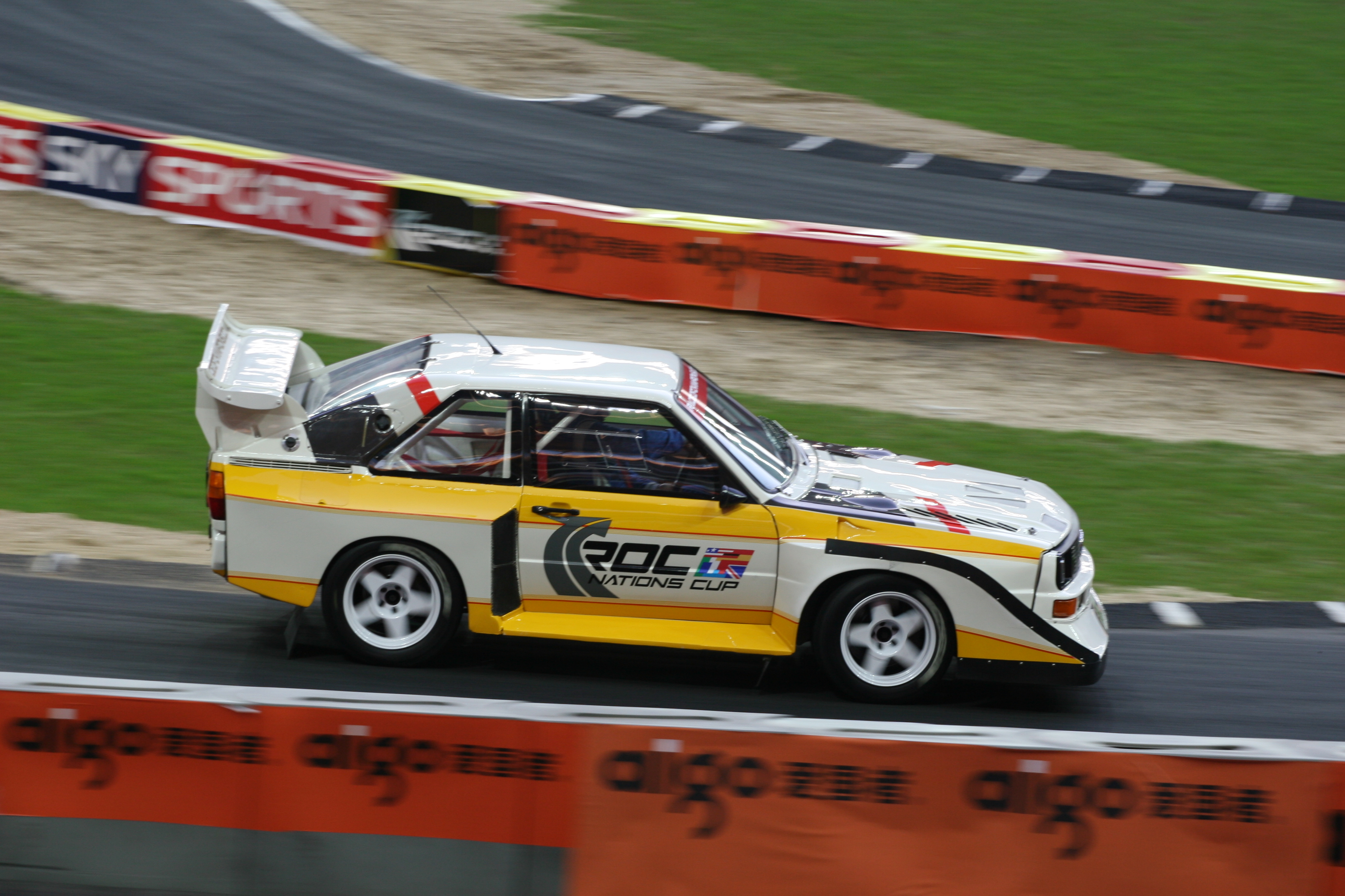 Stig Blomqvist driving an Audi Sport Quattro S1 at the 2007 Race of Champions at Wembley Stadium.